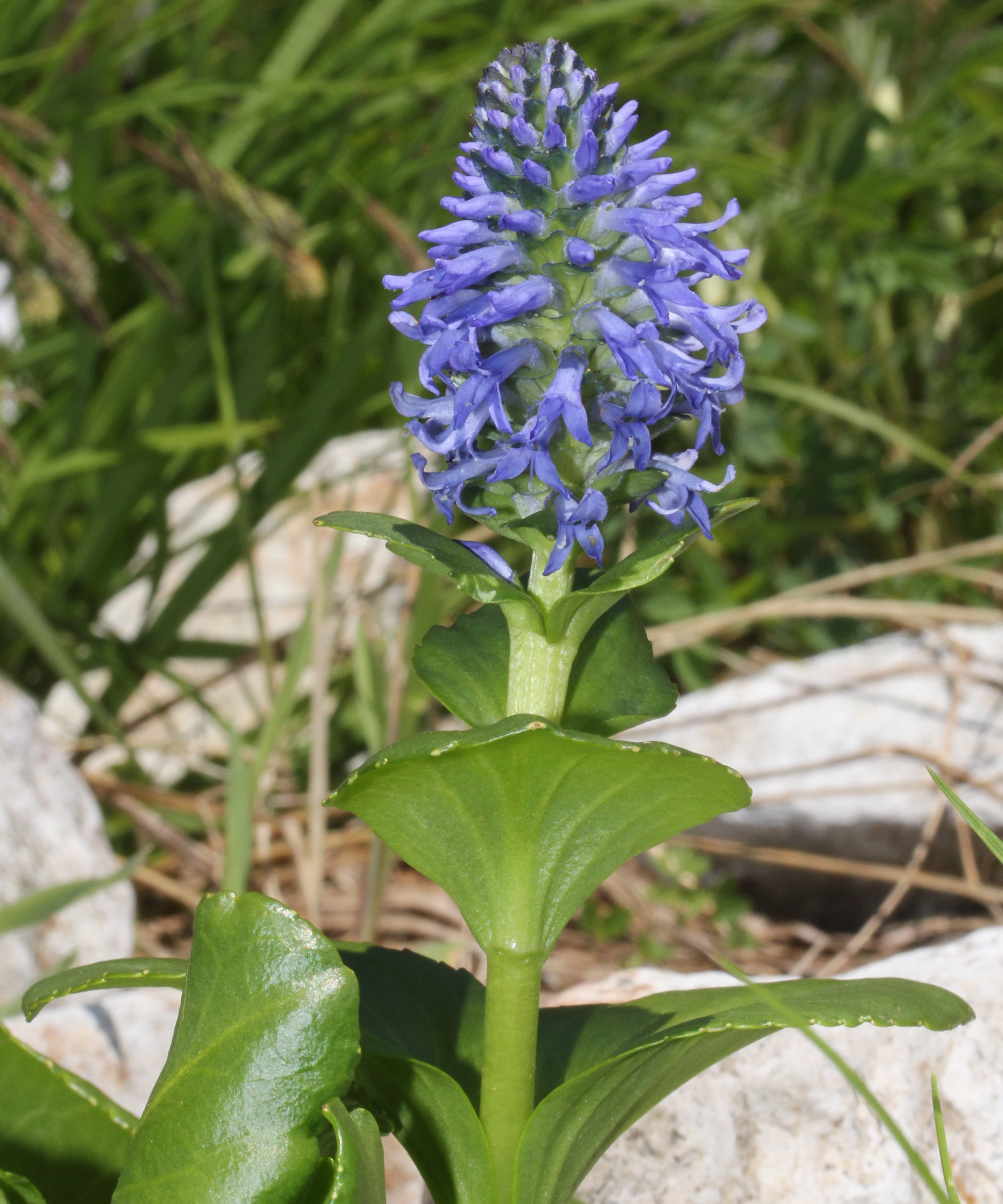 Lagotis glauca in Mount Shirouma, Hakuma, Nagano prefecture, Japan.